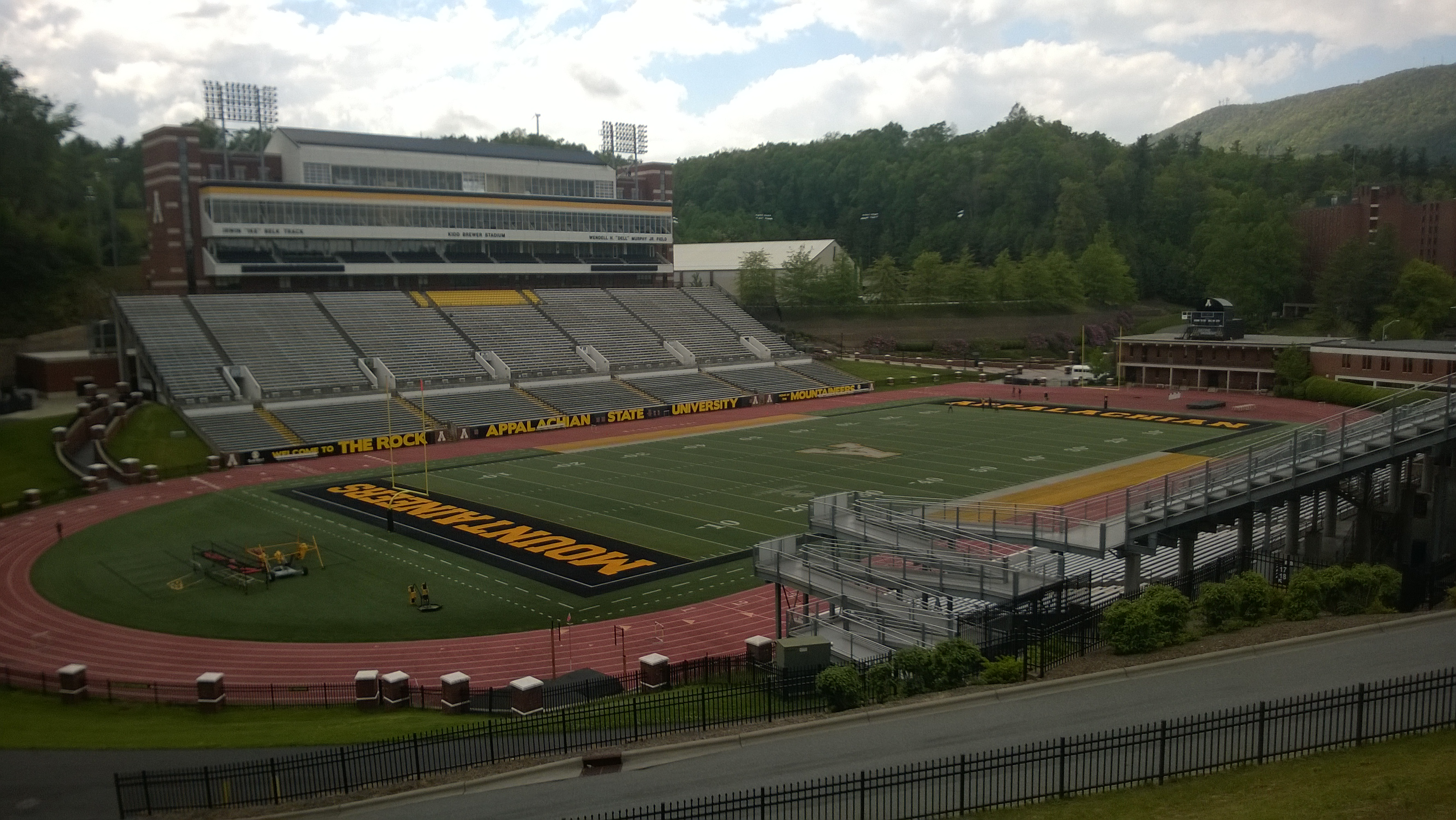 Kidd Brewer Stadium, looking towards the northwest from the southeast corner